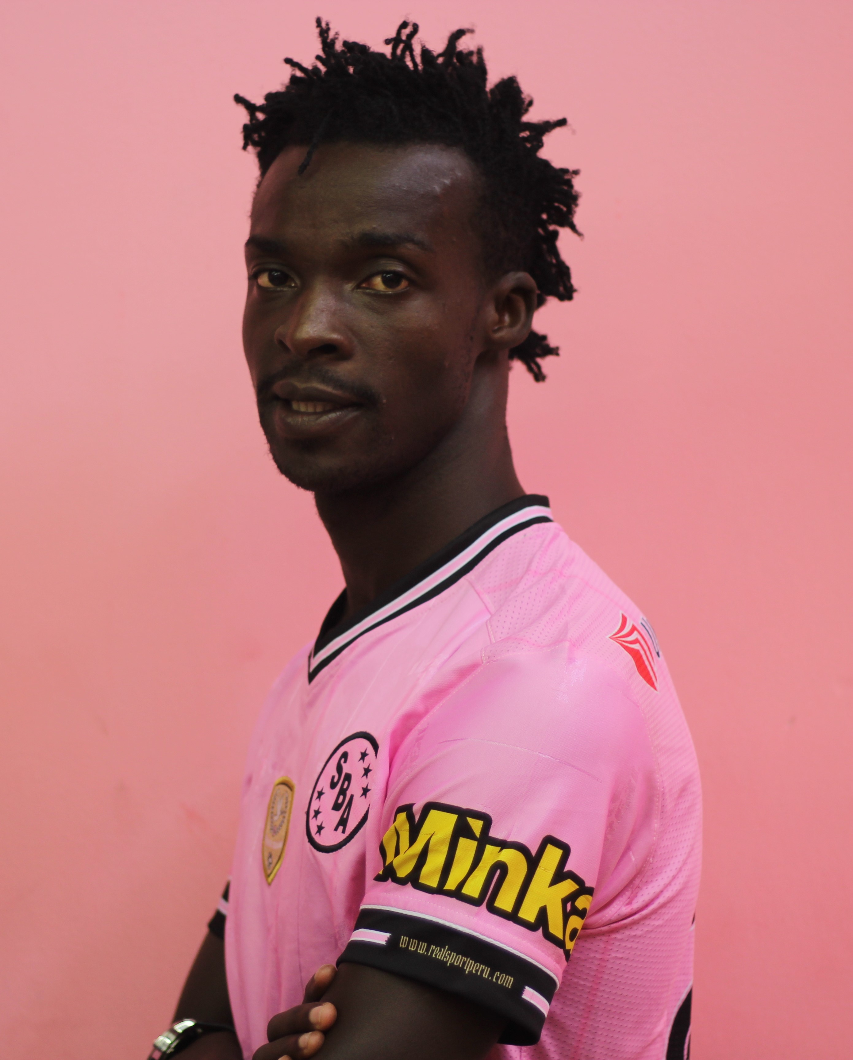 Sport Boys Association player.